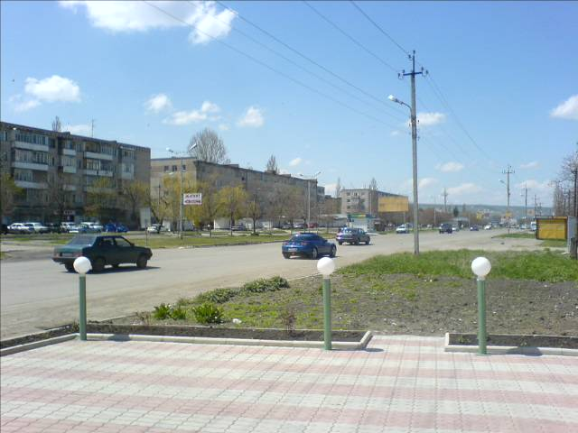 The city of Cherkessk.